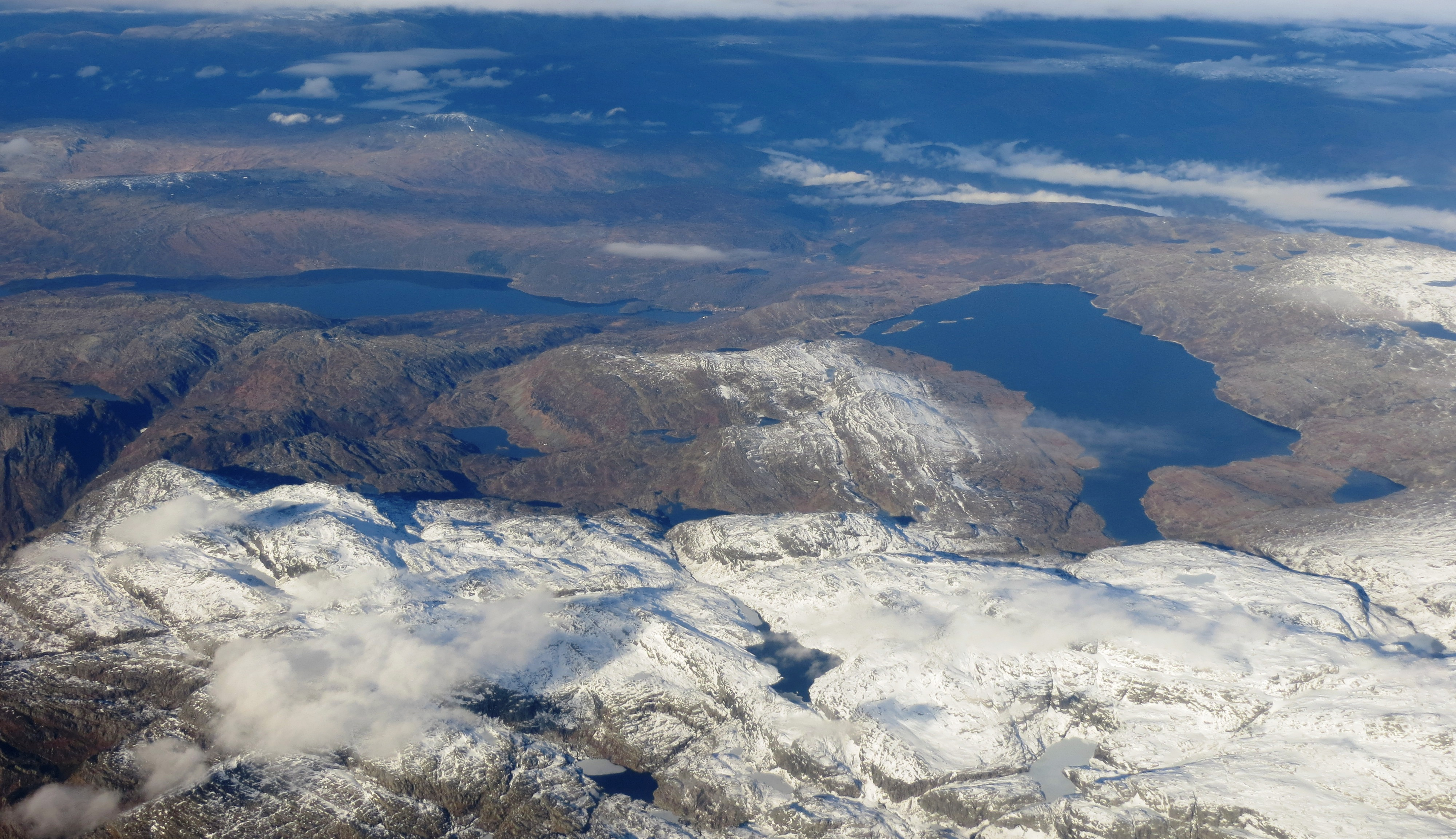 Aerial view from the south towarda the north, og the mountaneous landscape northeast of Bergen, Norway.